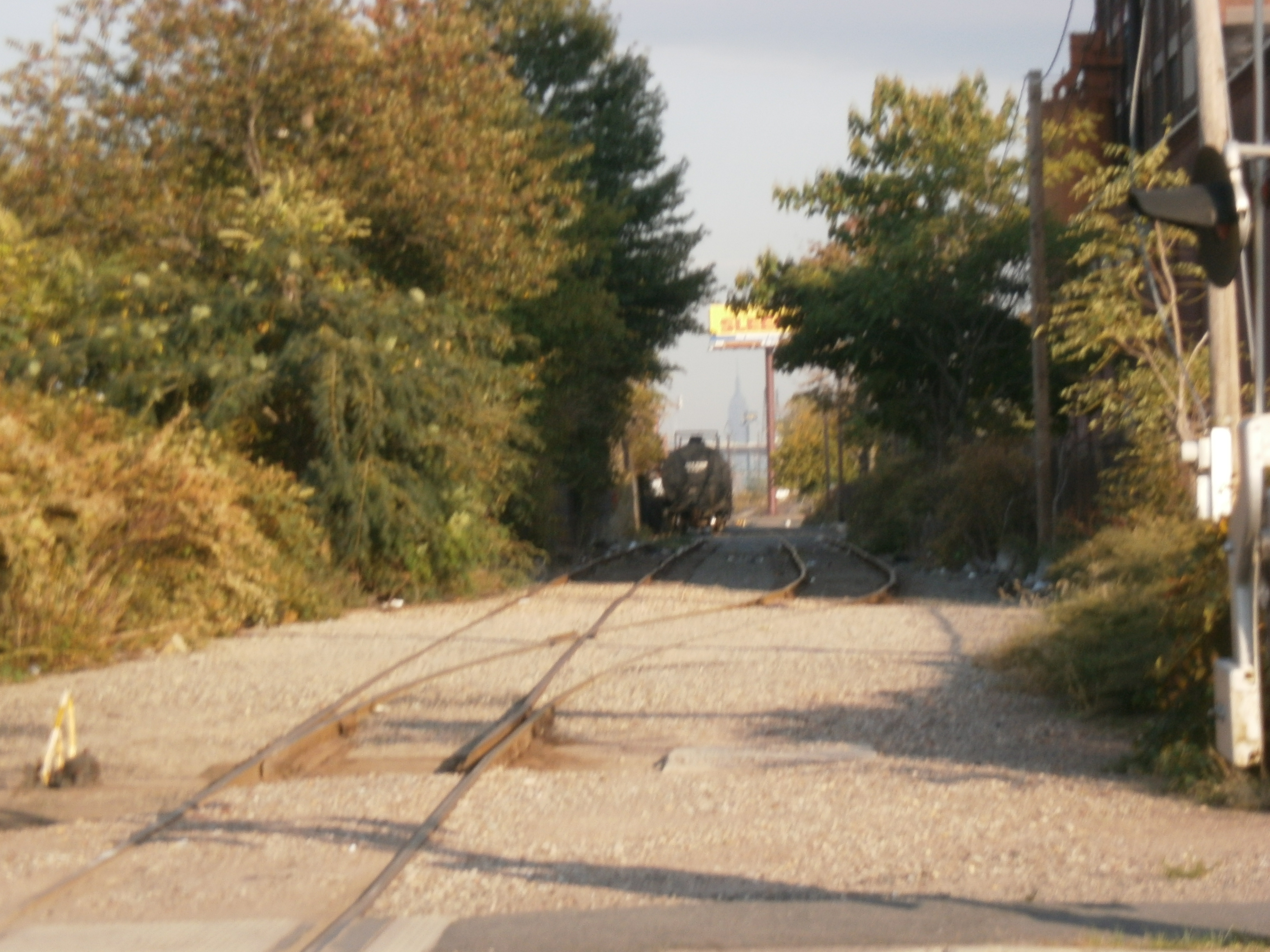 New Jersey Railroad ROW ran from Exchange Place to Newark, here shown in Harrison just east of Passaic River